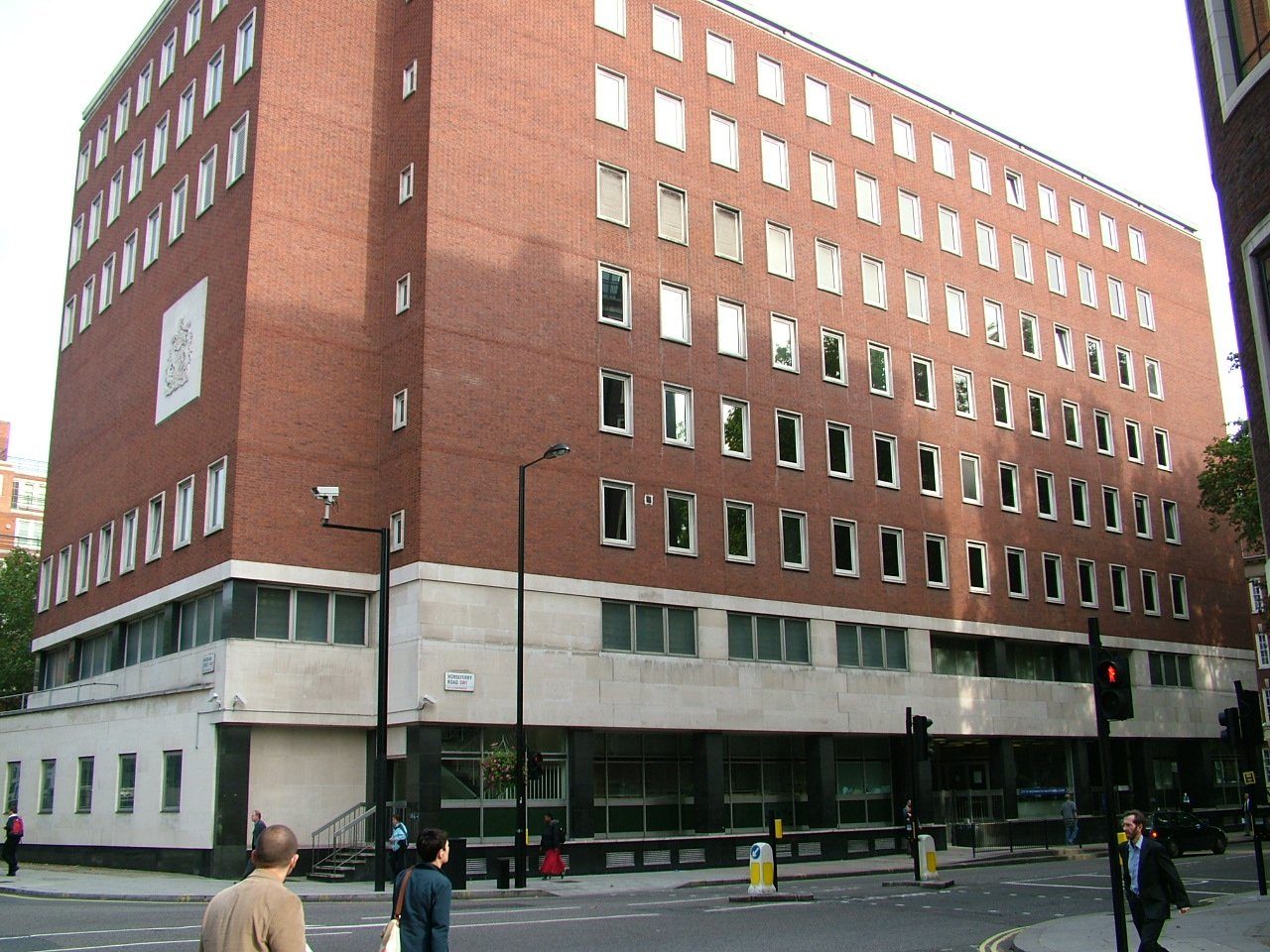 City of Westminster Magistrates' Court - Horseferry road, Central london - October 2007